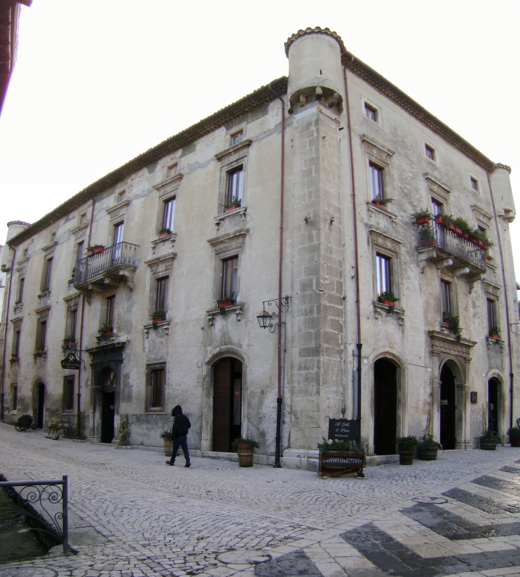 The palace Grilli, Pescocostanzo, province of L'Aquila, Abruzzo